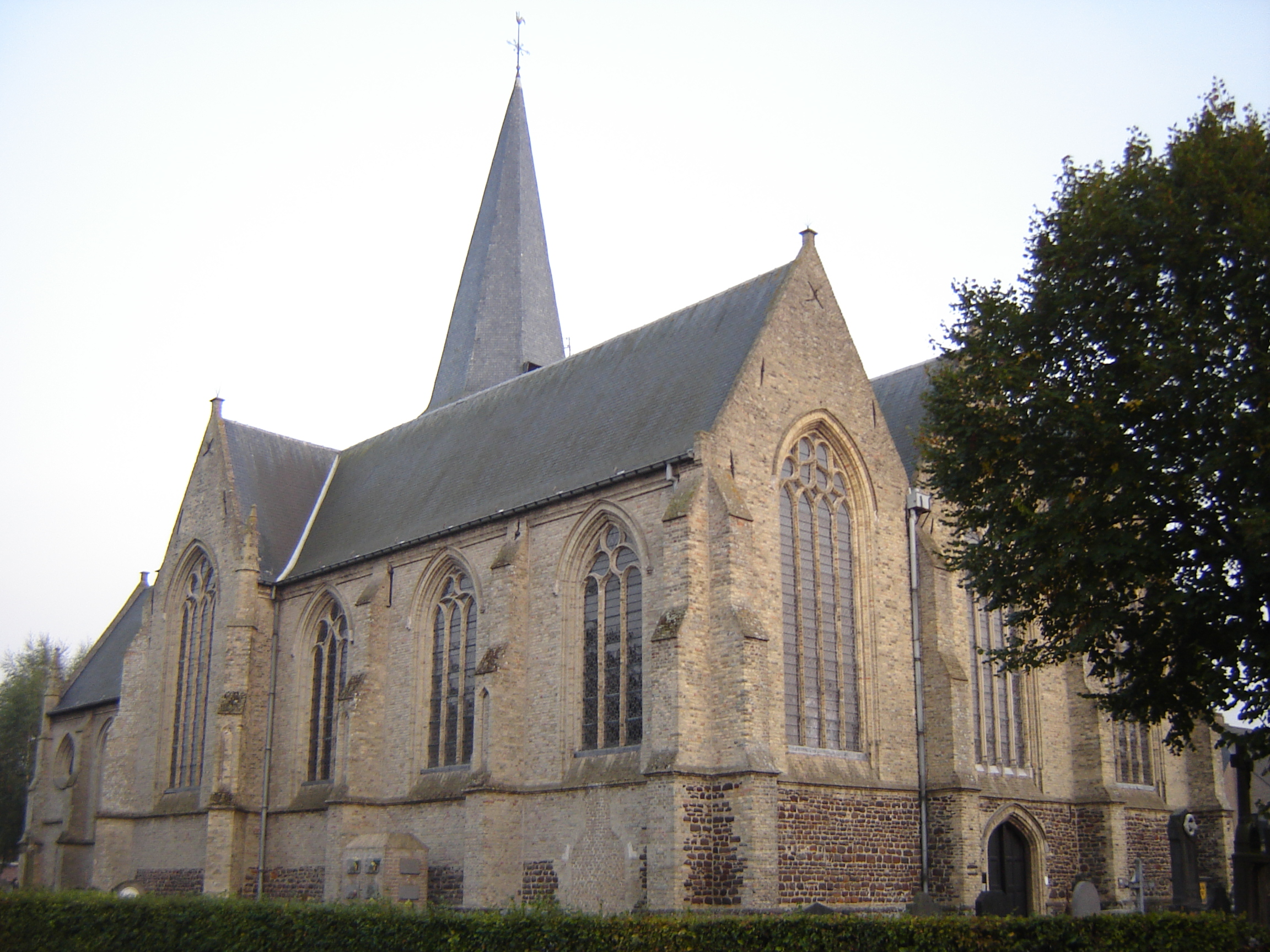 Church of Saint Blaise in Krombeke. Krombeke, Poperinge, West Flanders, Belgium